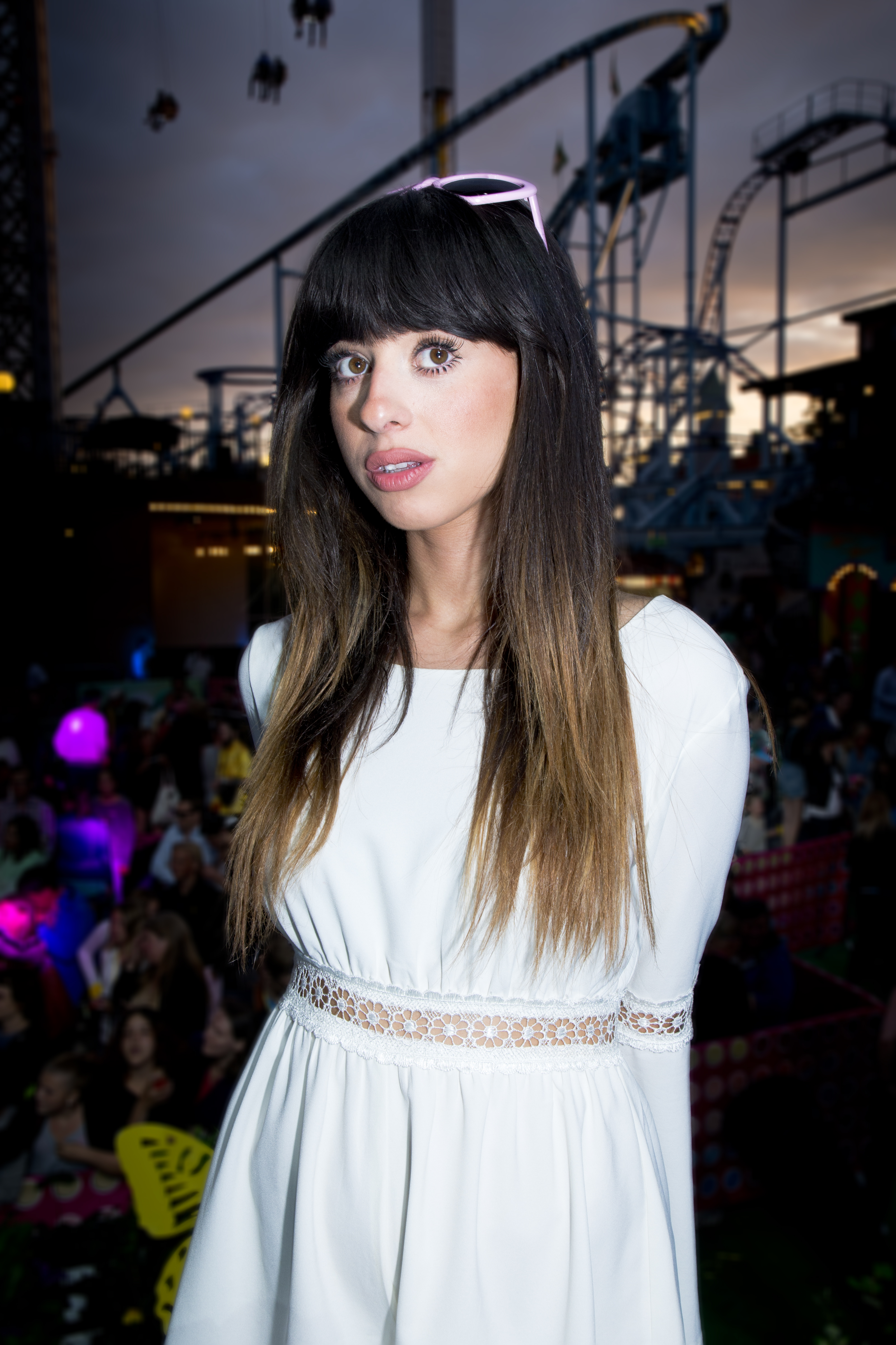 Foxes visit Sommarkrysset in Sweden, Stockholm, Gröna Lund.